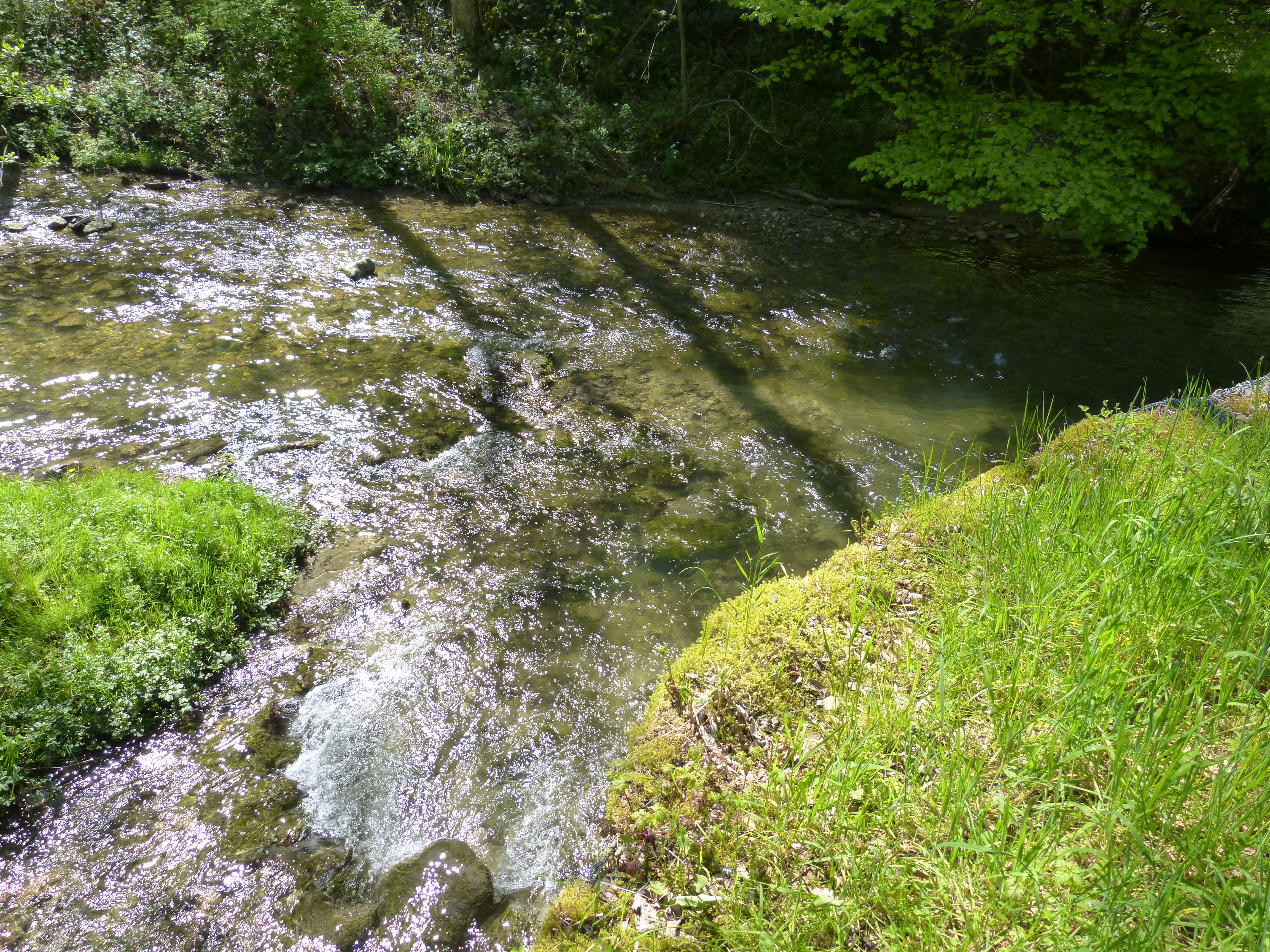 Confluence of the Oulaire river in the Menthue. This point is the municipal boundary between Bercher, Boulens and Montanaire.